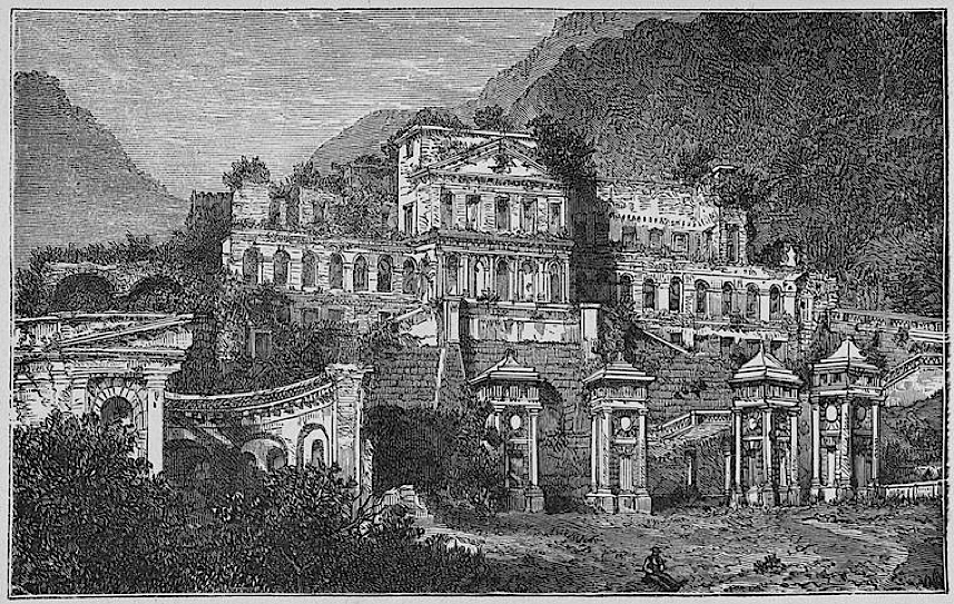 Ruines du Palais Sans-Souci à Milot, view 01 — from Le pays des Nègres : voyage à Haïti, ancienne partie française de Saint-Domingue by Edgar La Selve, Paris, Hachette, 1881.